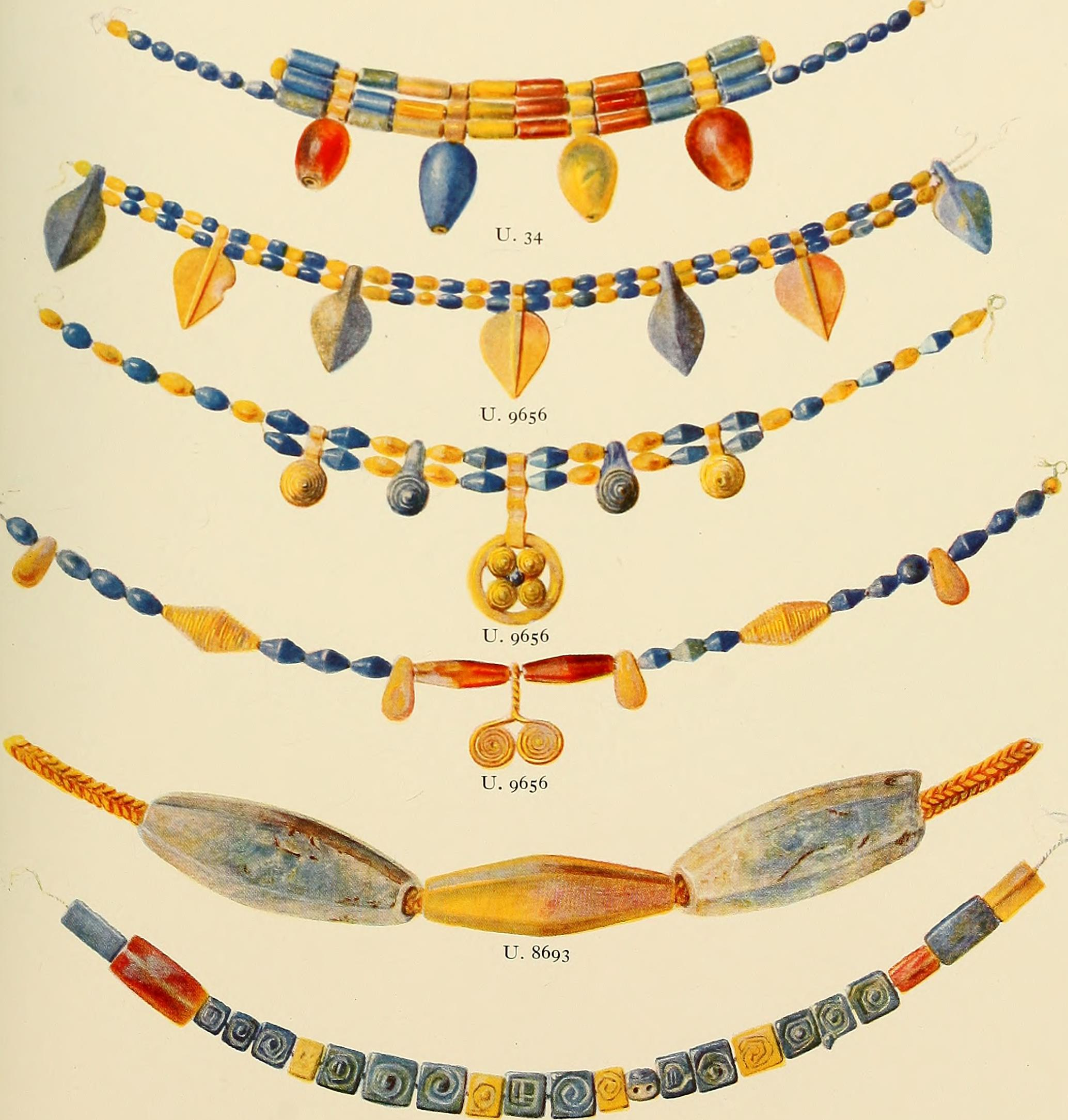 Title: Ur excavations Year: 1900 (1900s) Authors: Joint Expedition of the British Museum and of the Museum of the University of Pennsylvania to Mesopotamia Hall, H. R. (Harry Reginald), 1873-1930, ed Woolley, Leonard, Sir, 1880-1960 Legrain, Leon, 1878- ed Subjects: Publisher: (n.p.) Pub. for the Trustees of the Two Museums by the aid of a grant from the Carnegie Corporation of New York Text Appearing Before Image: ' Text Appearing After Image: U. 8569 BEADS V. Ch. XVIII M. Louise Baker del. PLATE 135 U. 11558